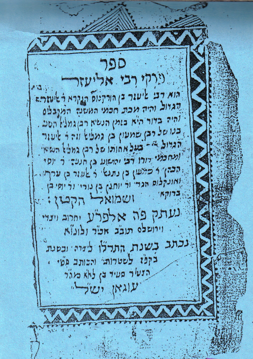 Handwritten Manuscript of Pirke Rabbi Eliezer, copied in Yemen in 1876